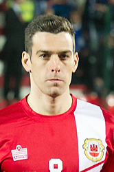 Gibraltarian football player, Aaron Payas